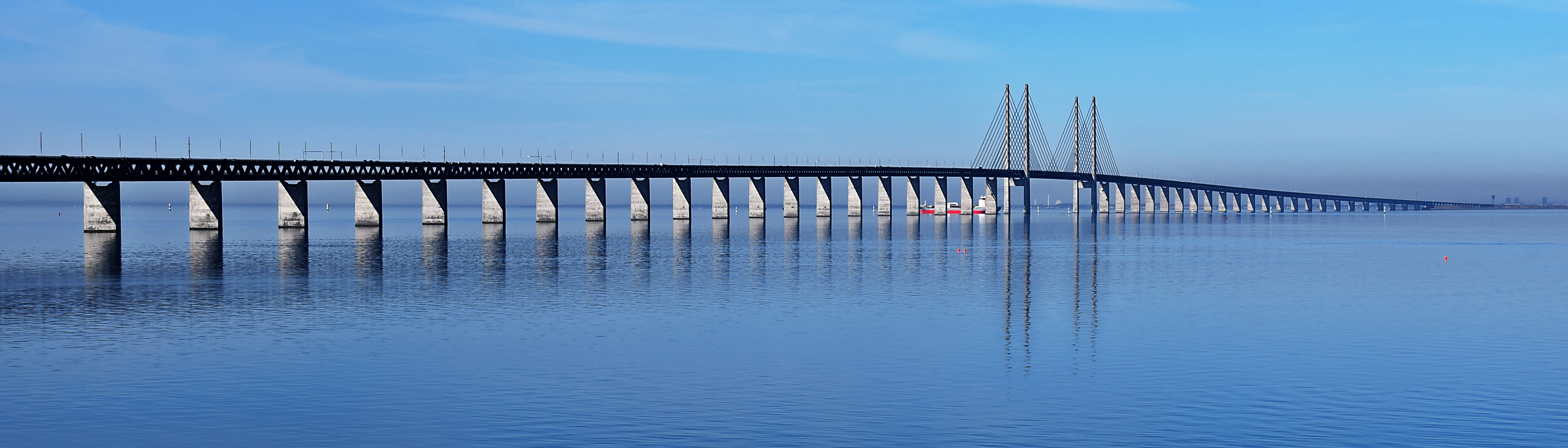 Øresund Bridge taken from view point under the bridge